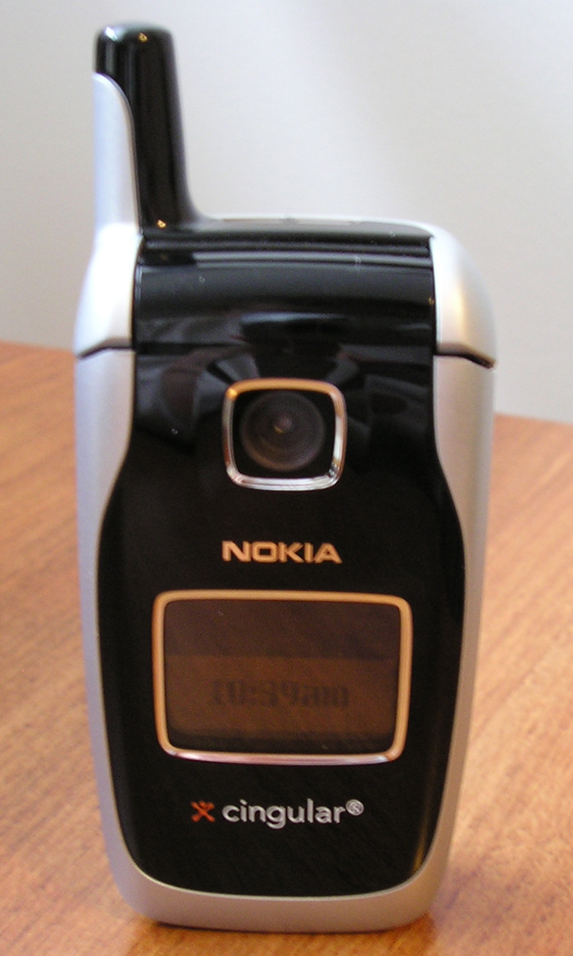 The Nokia 6102i from Cingular Wireless.